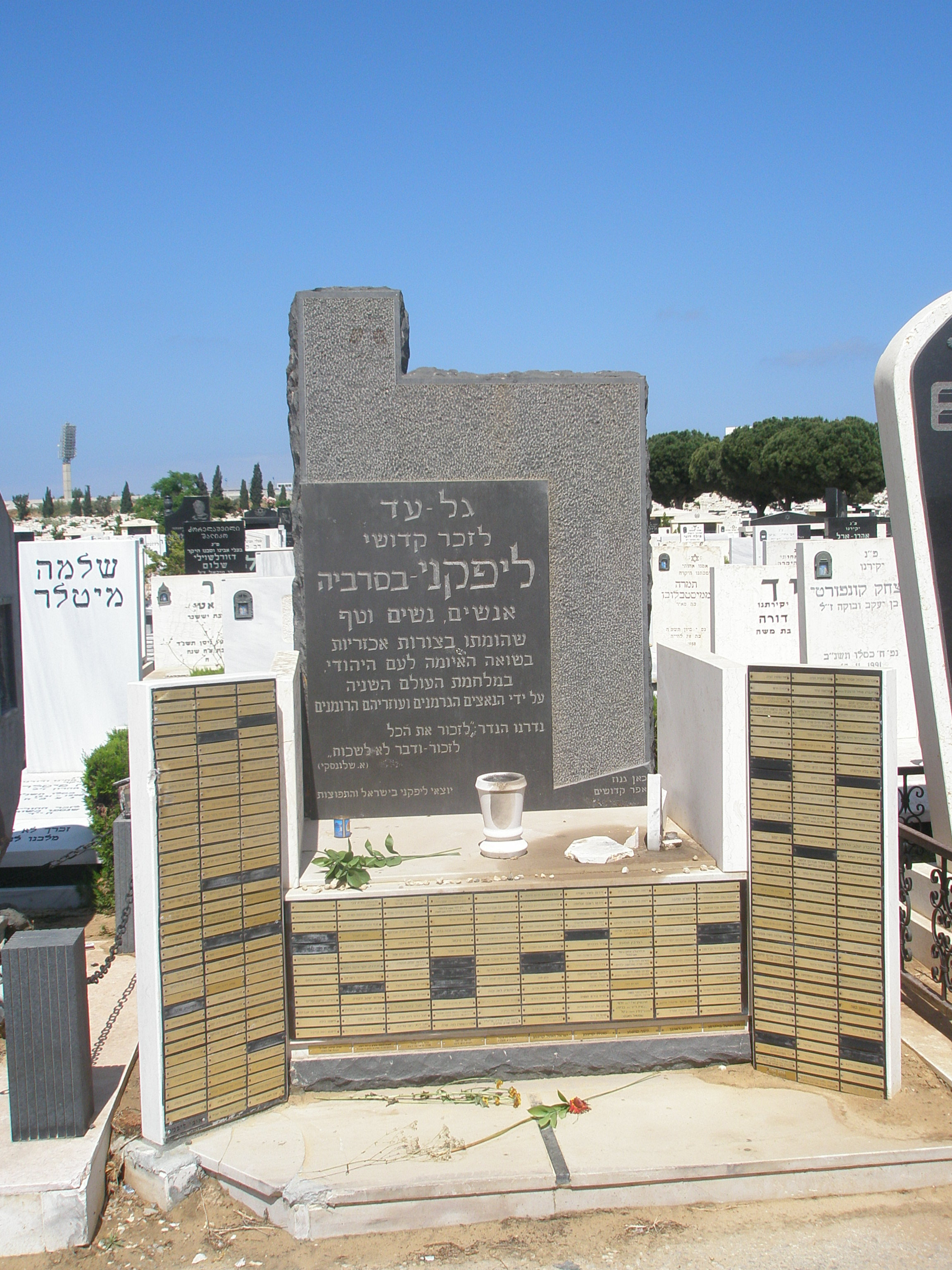 Maniewice memorial at Holon Cemetery